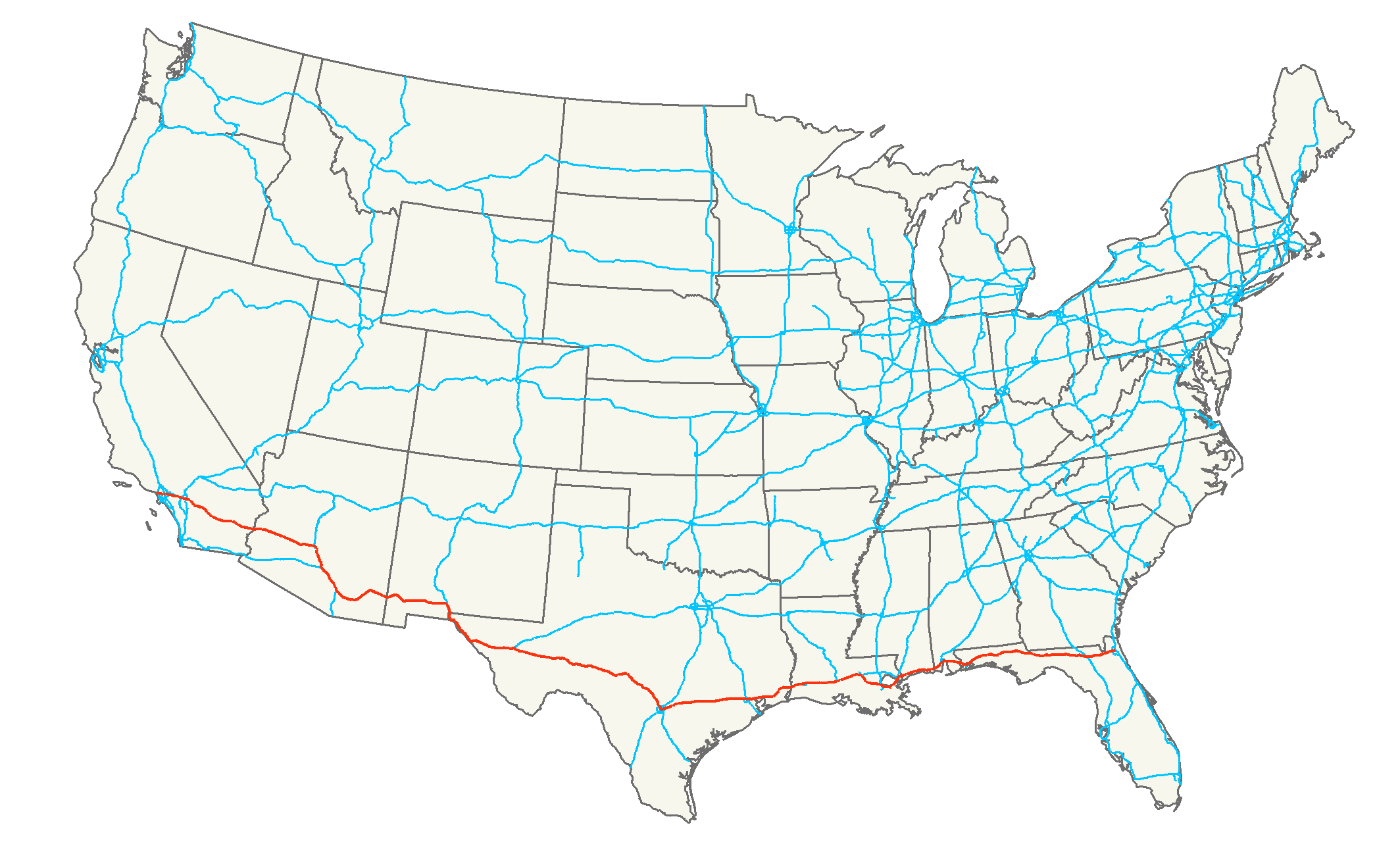 Map of Interstate 10